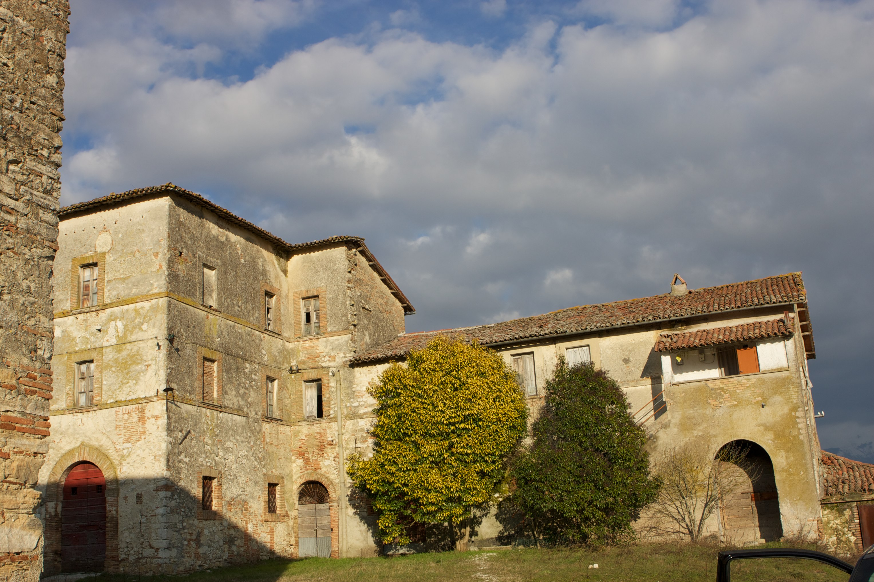 Farmhouse in the Rieti Valley plain - province of Rieti, Lazio, Italy